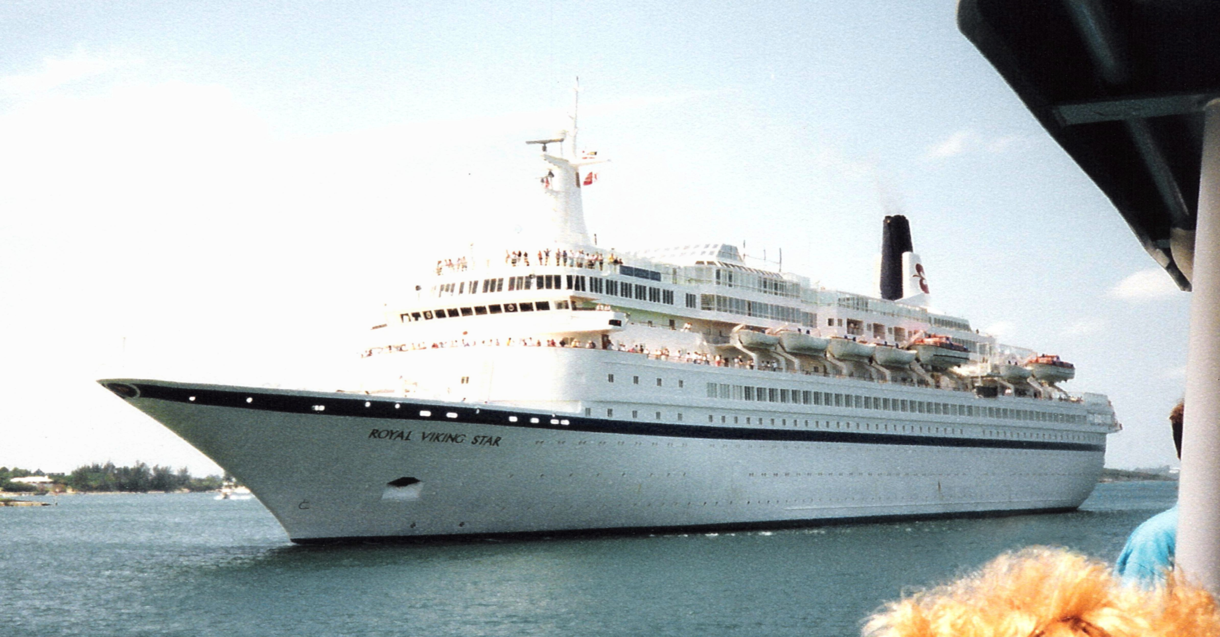 Royal Viking Star in Bermuda in 1990